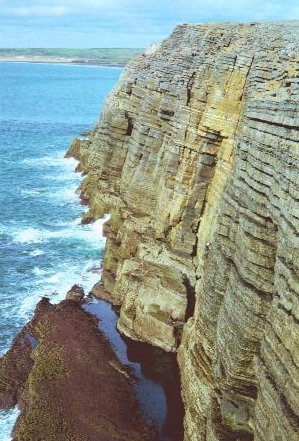 Western Walls. Far, western, end of the artillery ranges at Castlemartin. New routing on juggy limestone. One of the best easy end climbing crags anywhere.